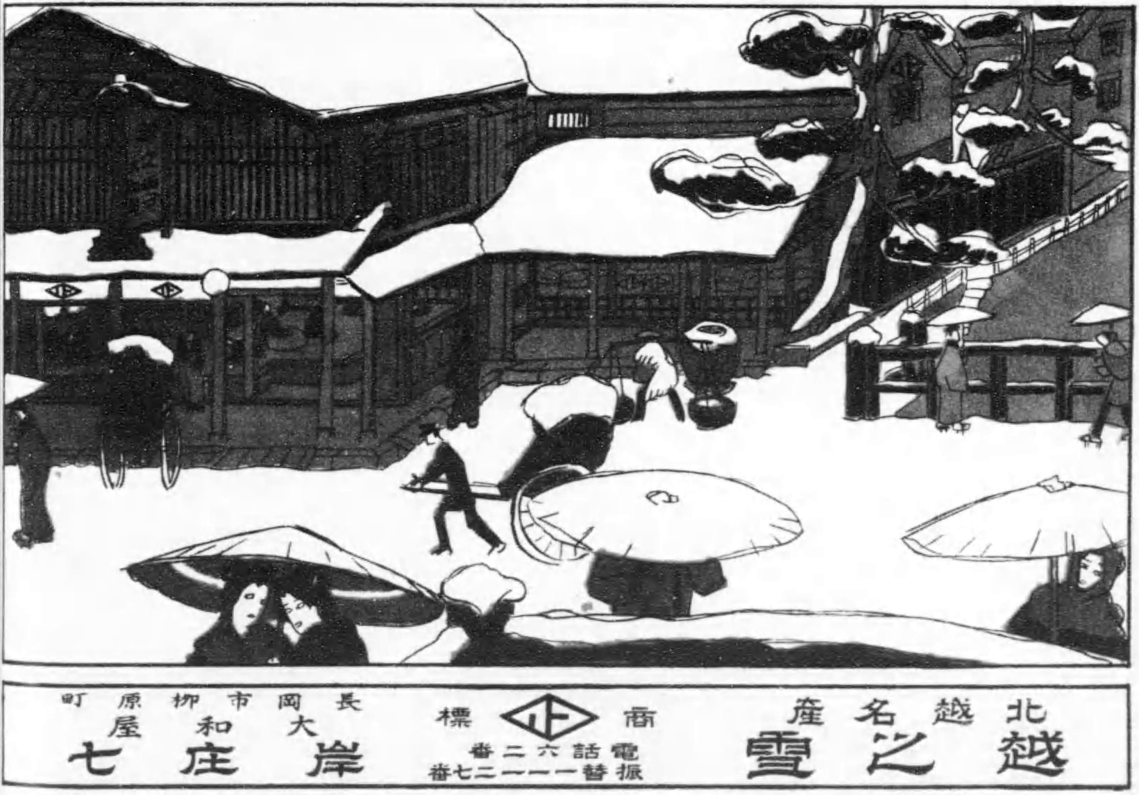 Yamatoya (a sweet shop in Nagaoka, Niigata Prefecture, Japan) in Taishō era